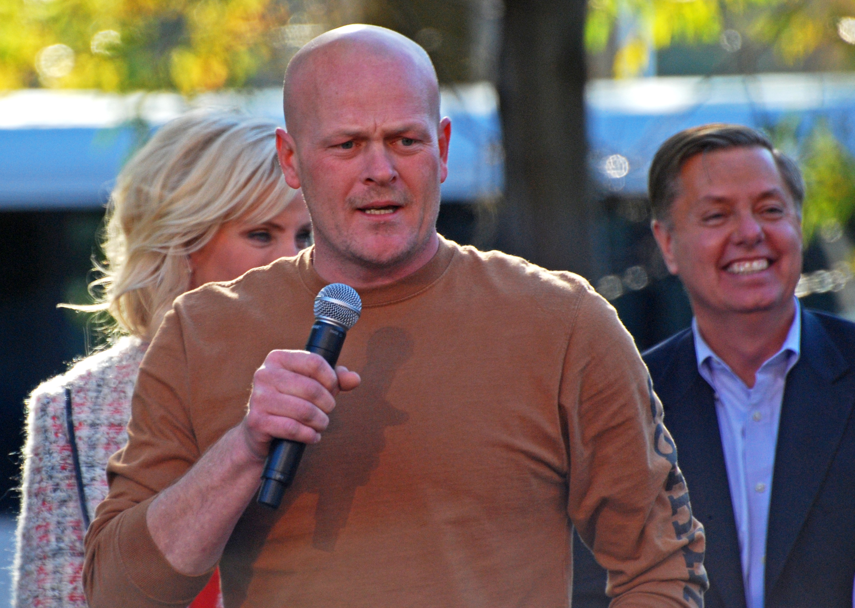 Samuel Joseph Wurzelbacher (Joe the Plumber) holding a microphone in Elyria, Ohio, United States with Senator Lindsay Graham and Cindy McCain behind him